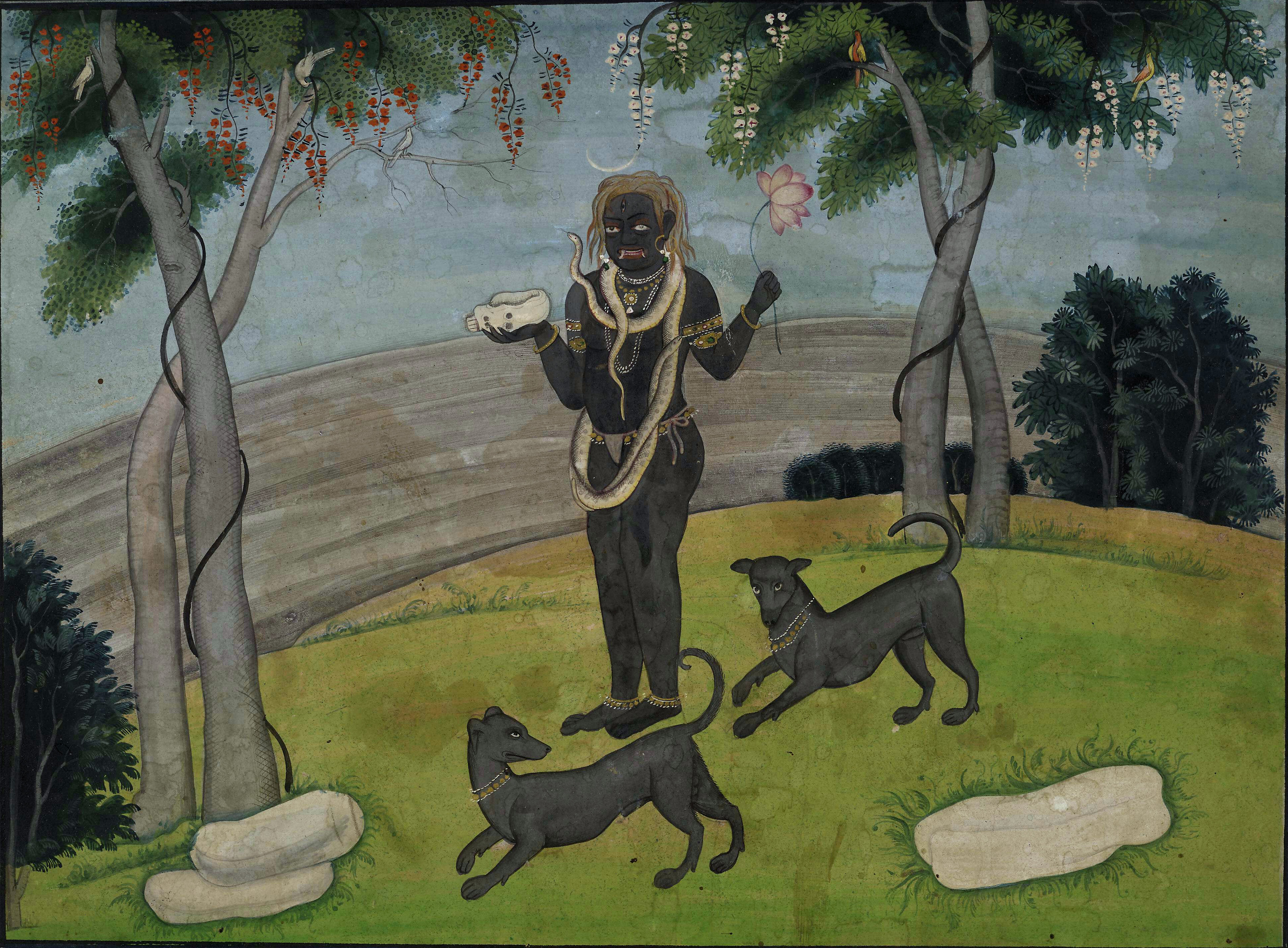 "Painting. Śiva as Bhairava with two dogs. Painted on paper."